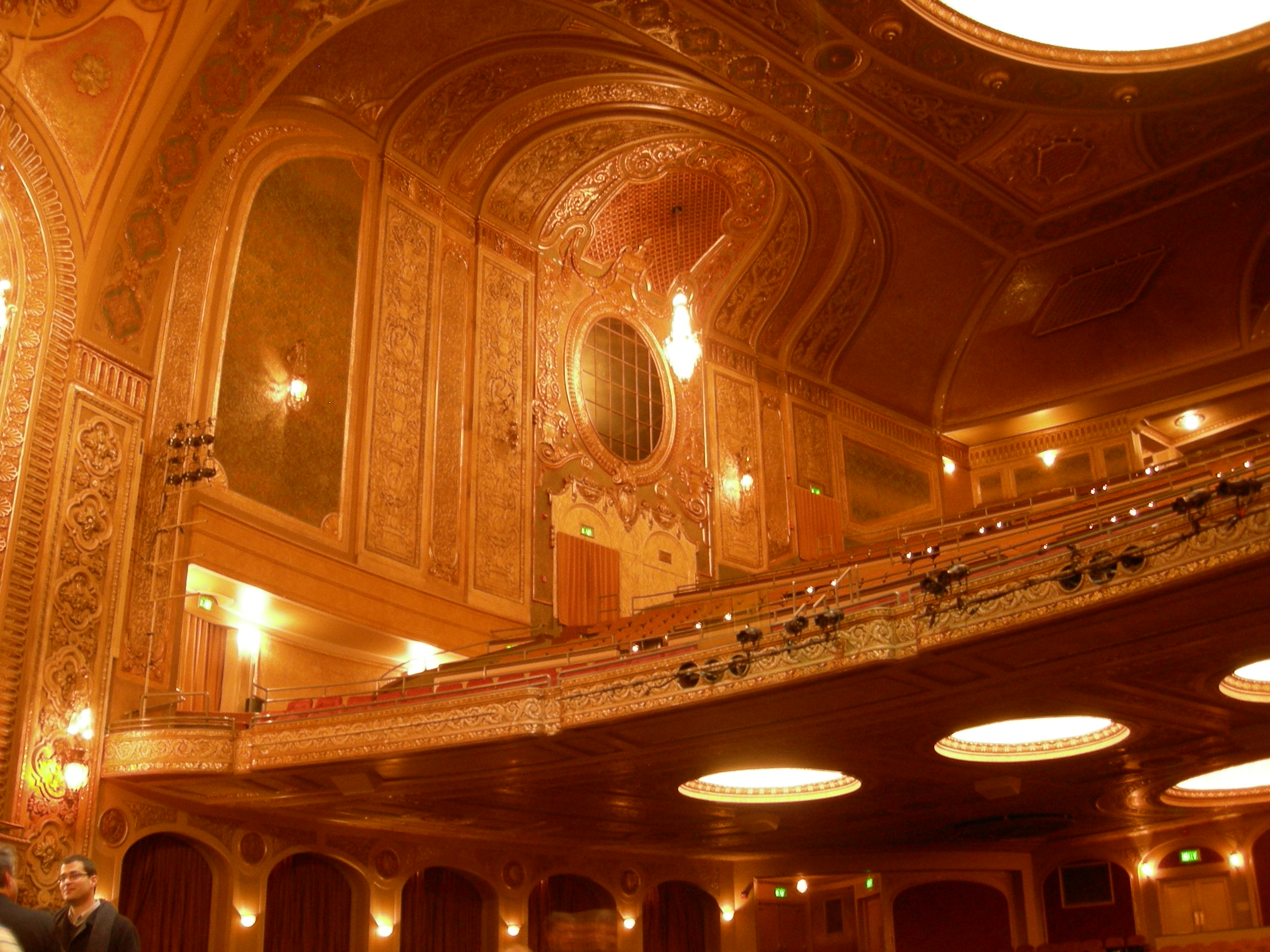 Looking up into the balcony, Paramount Northwest Theater, Seattle, Washington; architect B. Marcus Priteca, 1929. The building is now on the National Register of Historic Places.